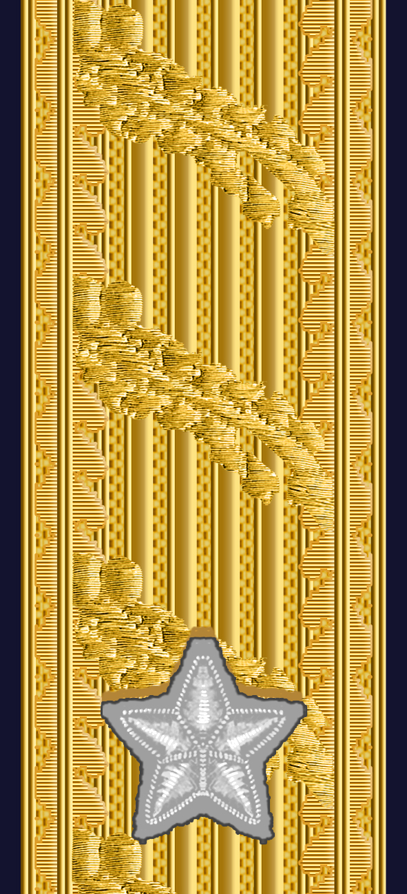 Insignia for Rear Admiral (Swedish Navy) and Brigadier General (Swedish Amphibious Corps) (OF-6).